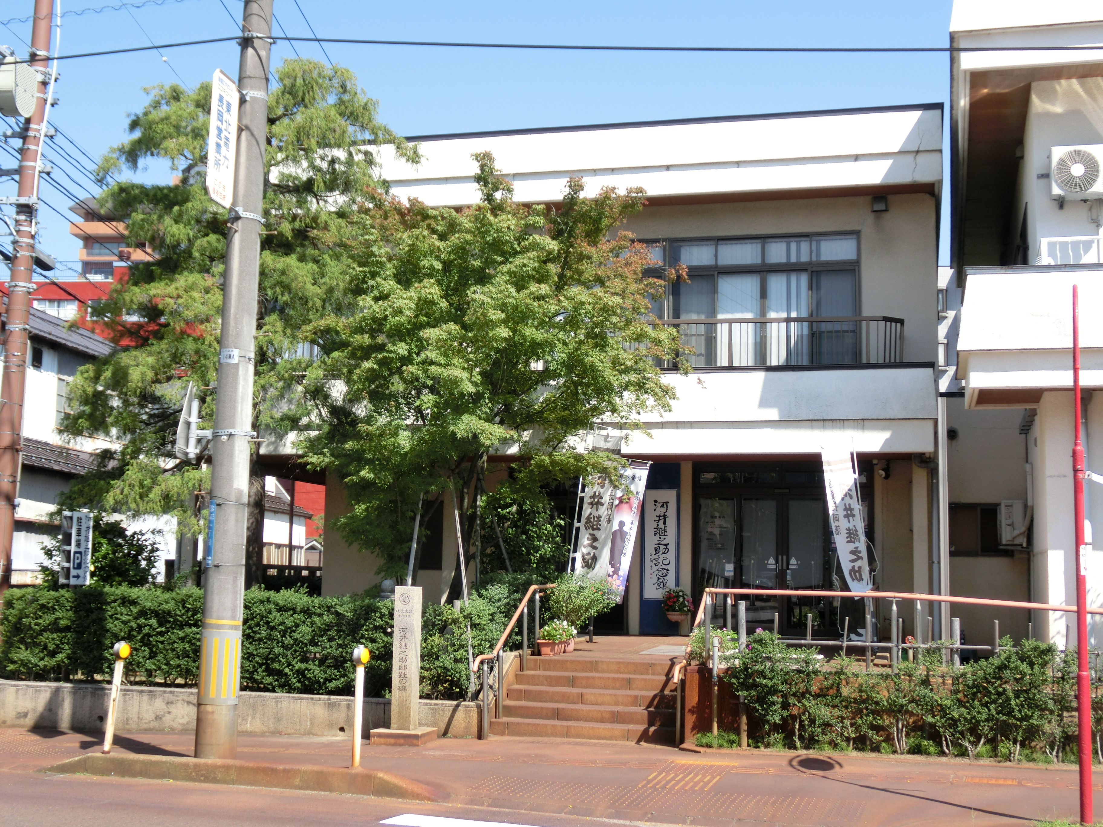 Kawai Tsuginosuke Memorial Museum